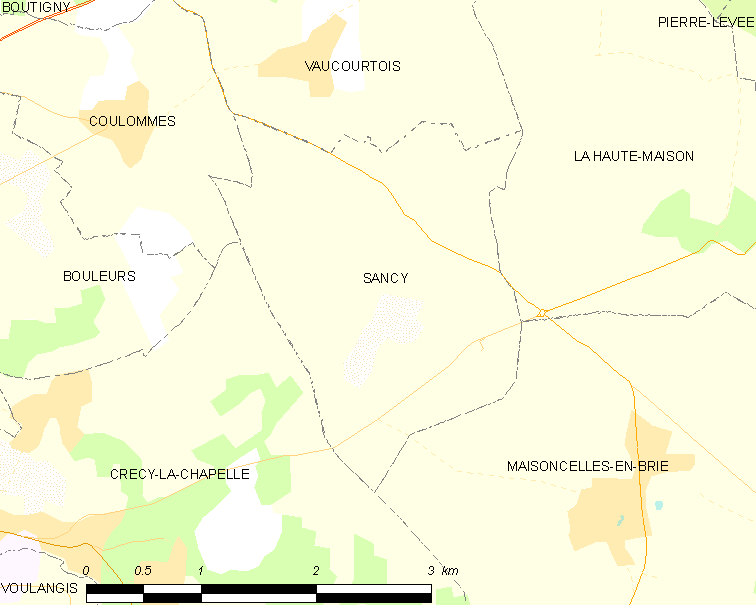 Map of French municipality Sancy